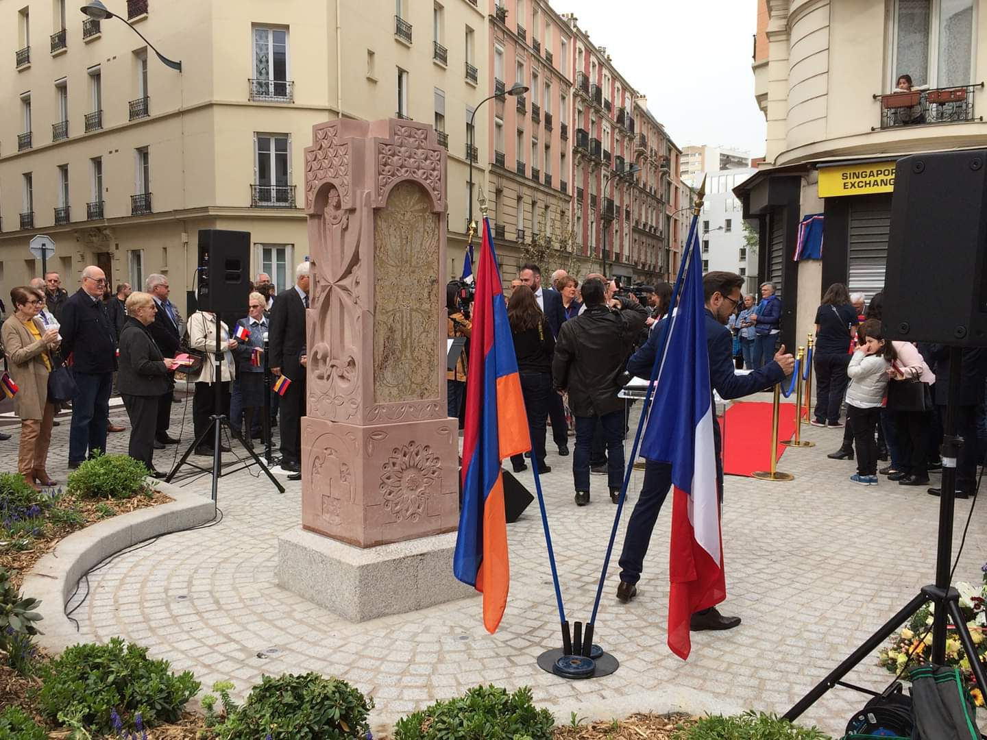 "Memorial Khachkar"- dedicated to the memory of the victims of the Armenian Genocide situated in the city of Clichy on Charles Aznavour Square, 2019, sculptor Harutyun Ekmalyan